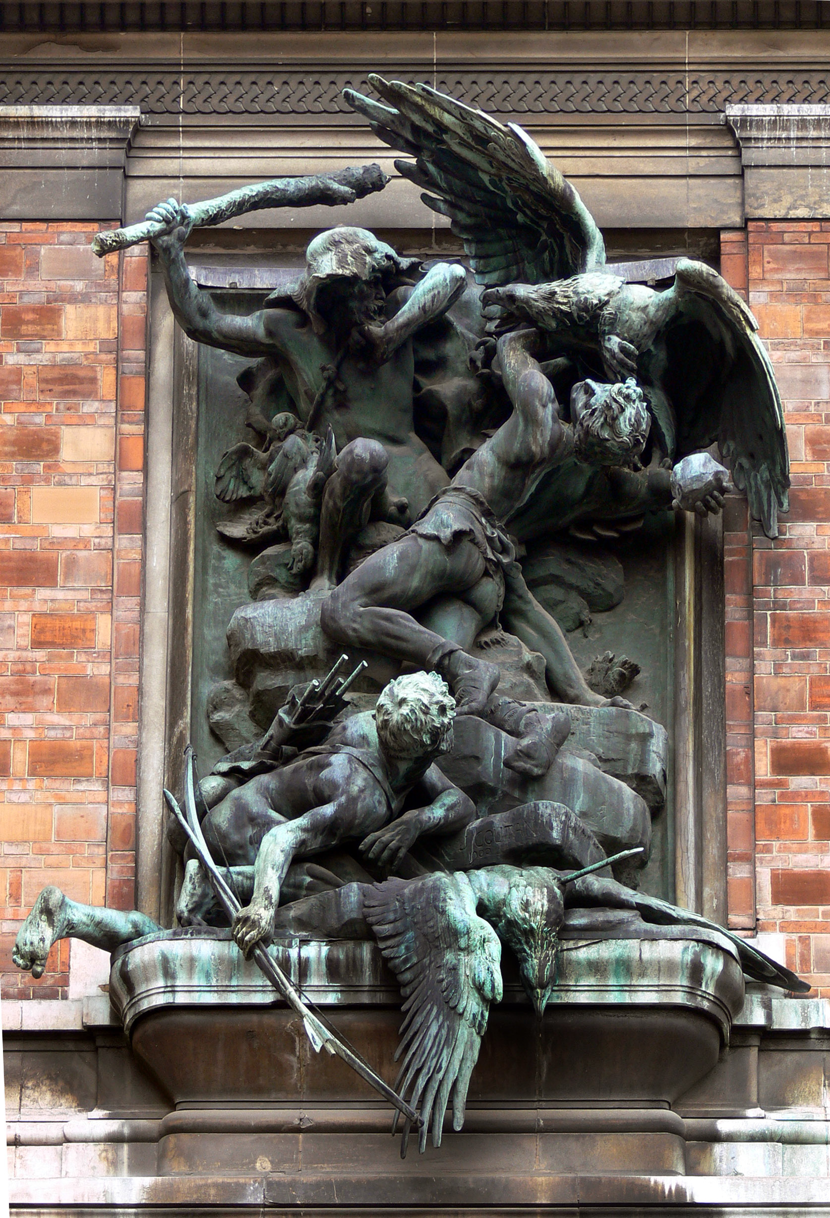 sculpture made by Jules Coutan